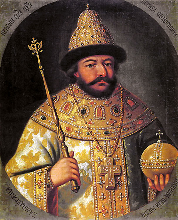 Boris Godunow Tsar of Russia